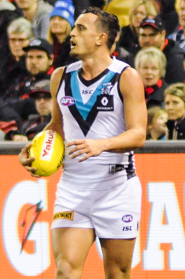 Sam Powell-Pepper during the AFL round twelve match between Essendon and Port Adelaide on 10 June 2017 at Etihad Stadium in Melbourne, Victoria.